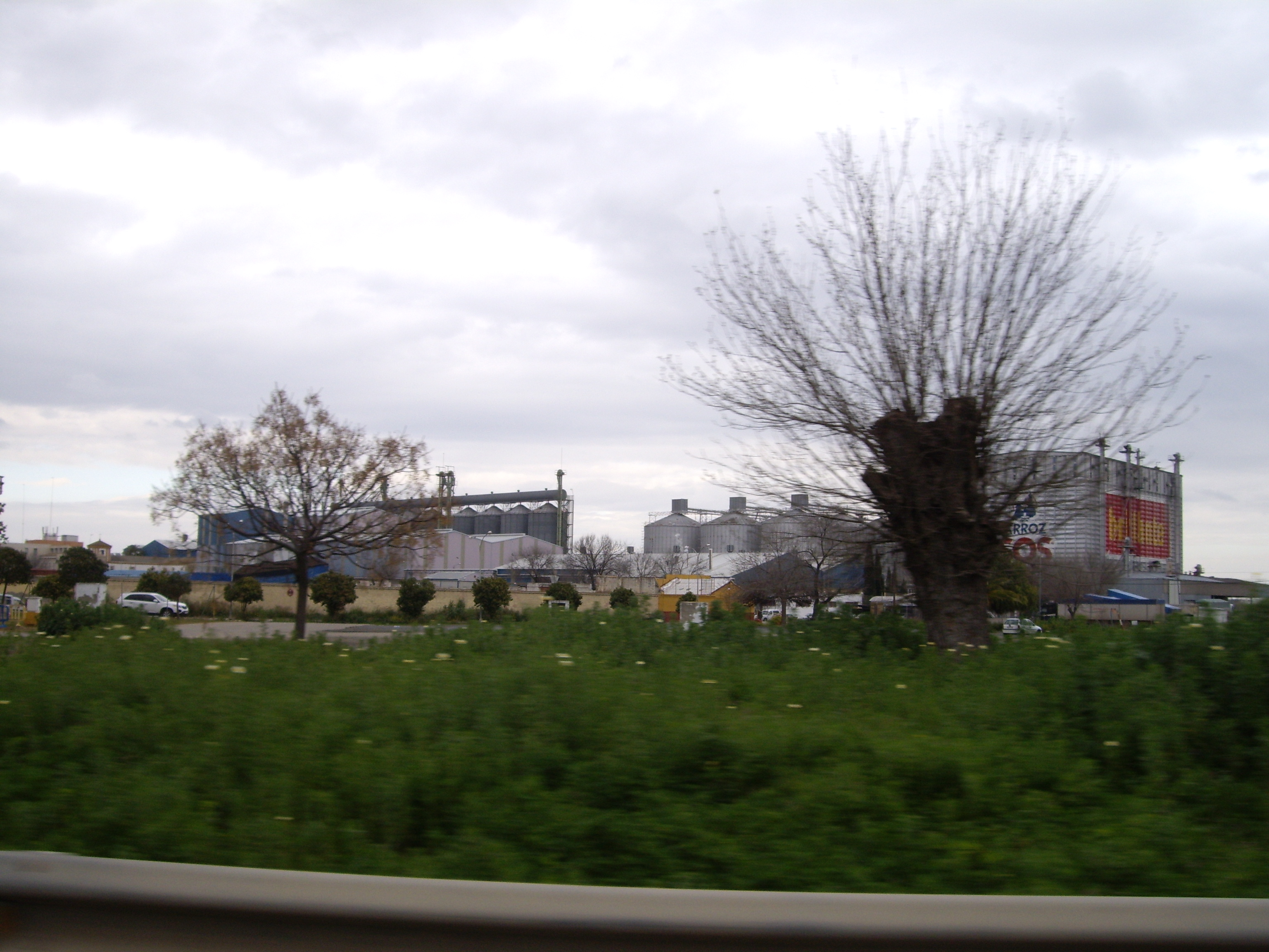 Erba rice factory in San Juan de Aznalfarache, Seville, view from the road